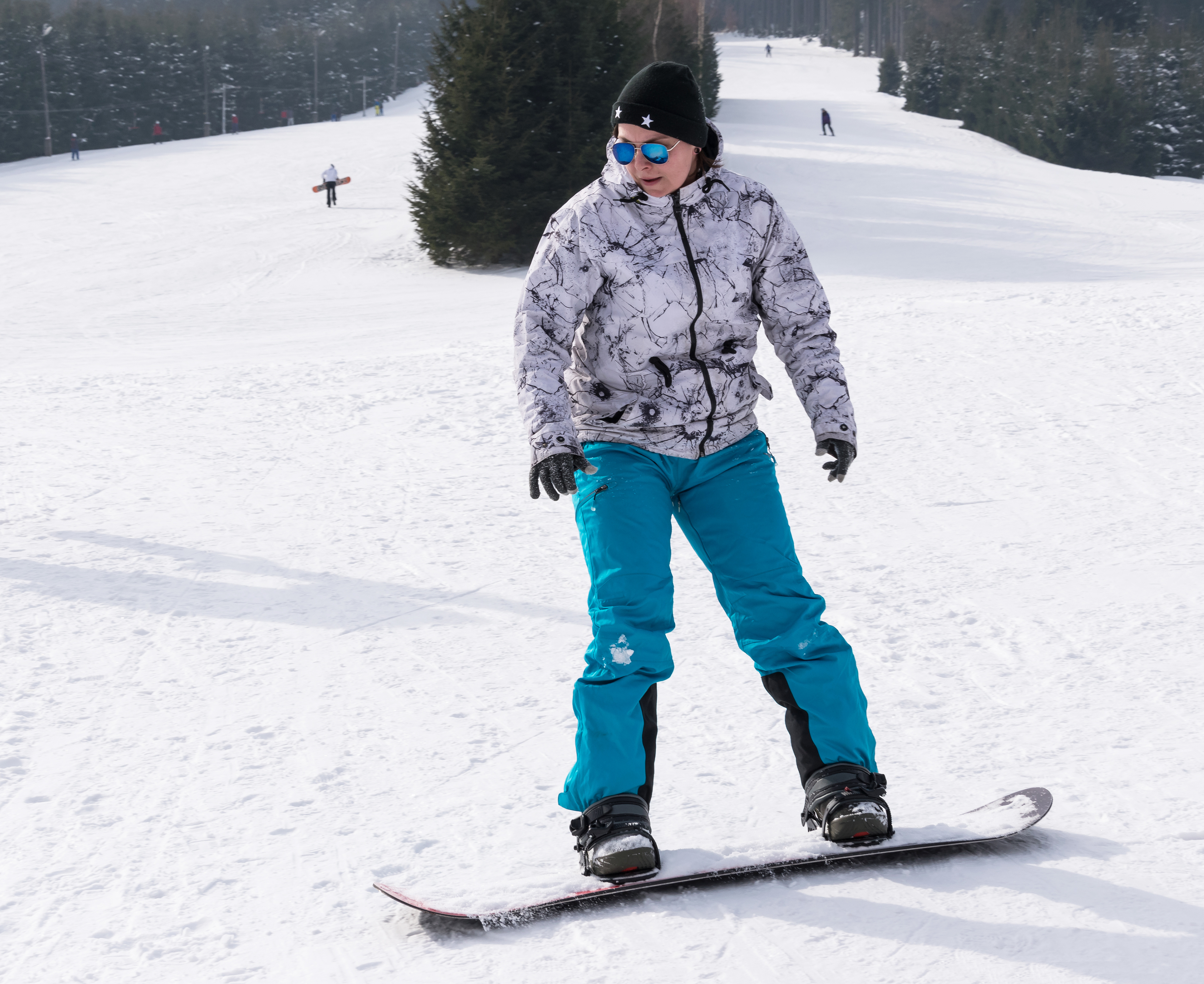 Snowboarder